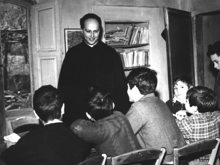 Don Lonrenzo Milani and his pupils in the classroom of the "Scuola di Barbian"